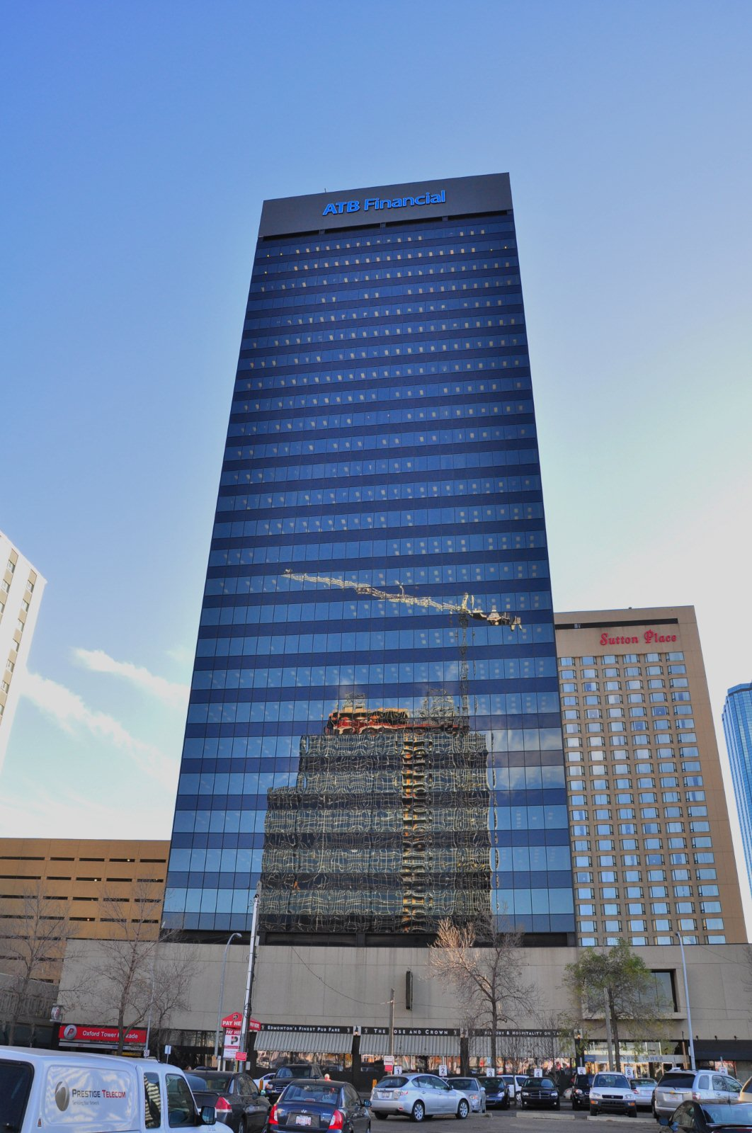 Well everyone else shot it today!